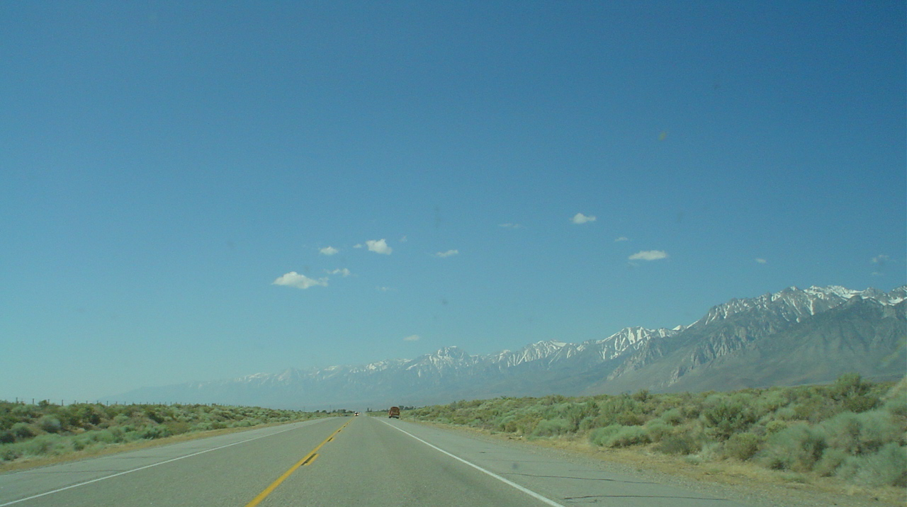 Southbound US 395 north of Lone Pine CA. The Sierra Nevada in view to the west. Photo by Mike Teague June 2005.